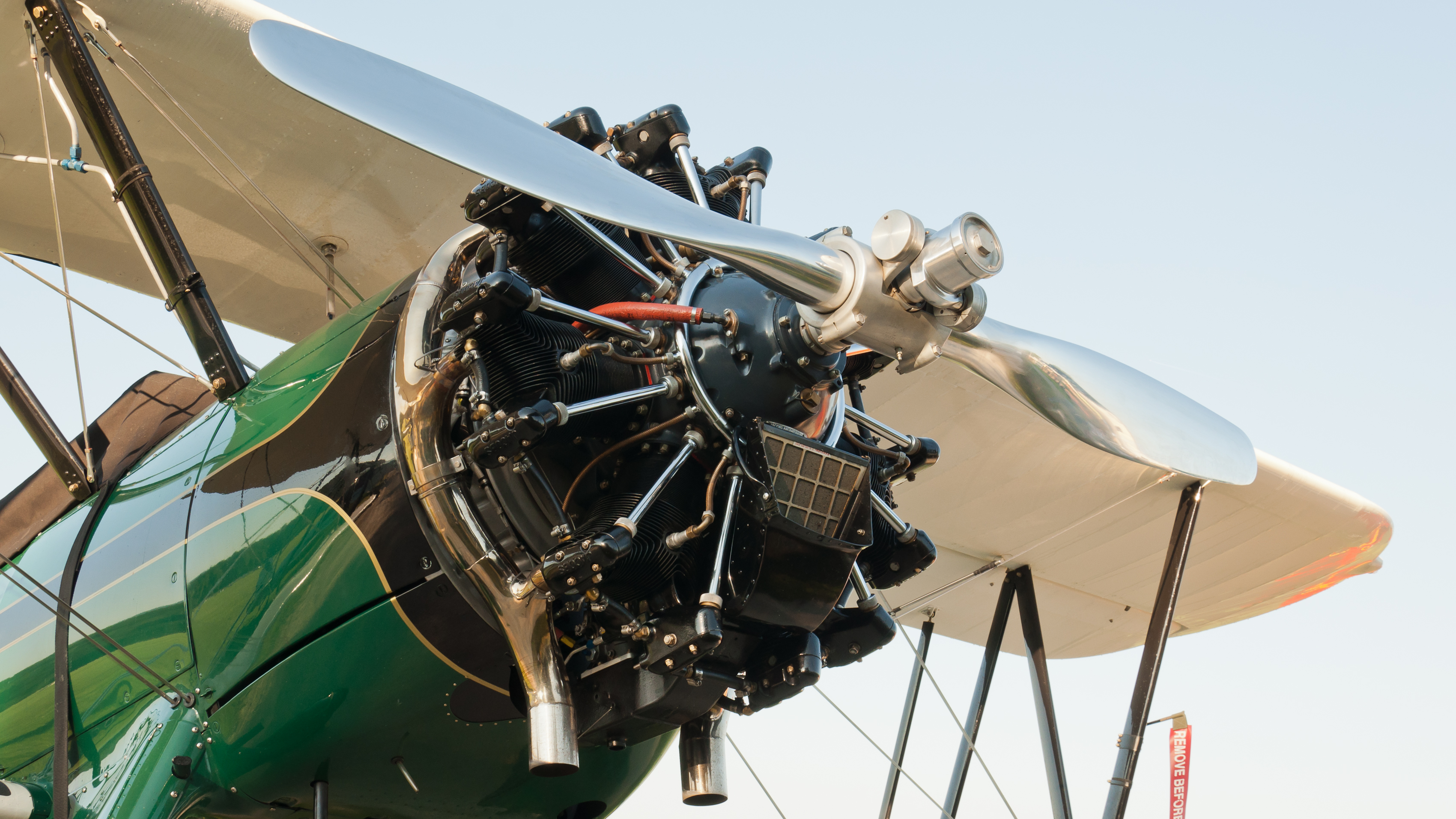 Jacobs R-755 engine on a Boeing-Stearman E75 (reg. N5729N, cn 75-8232, built in 1943)